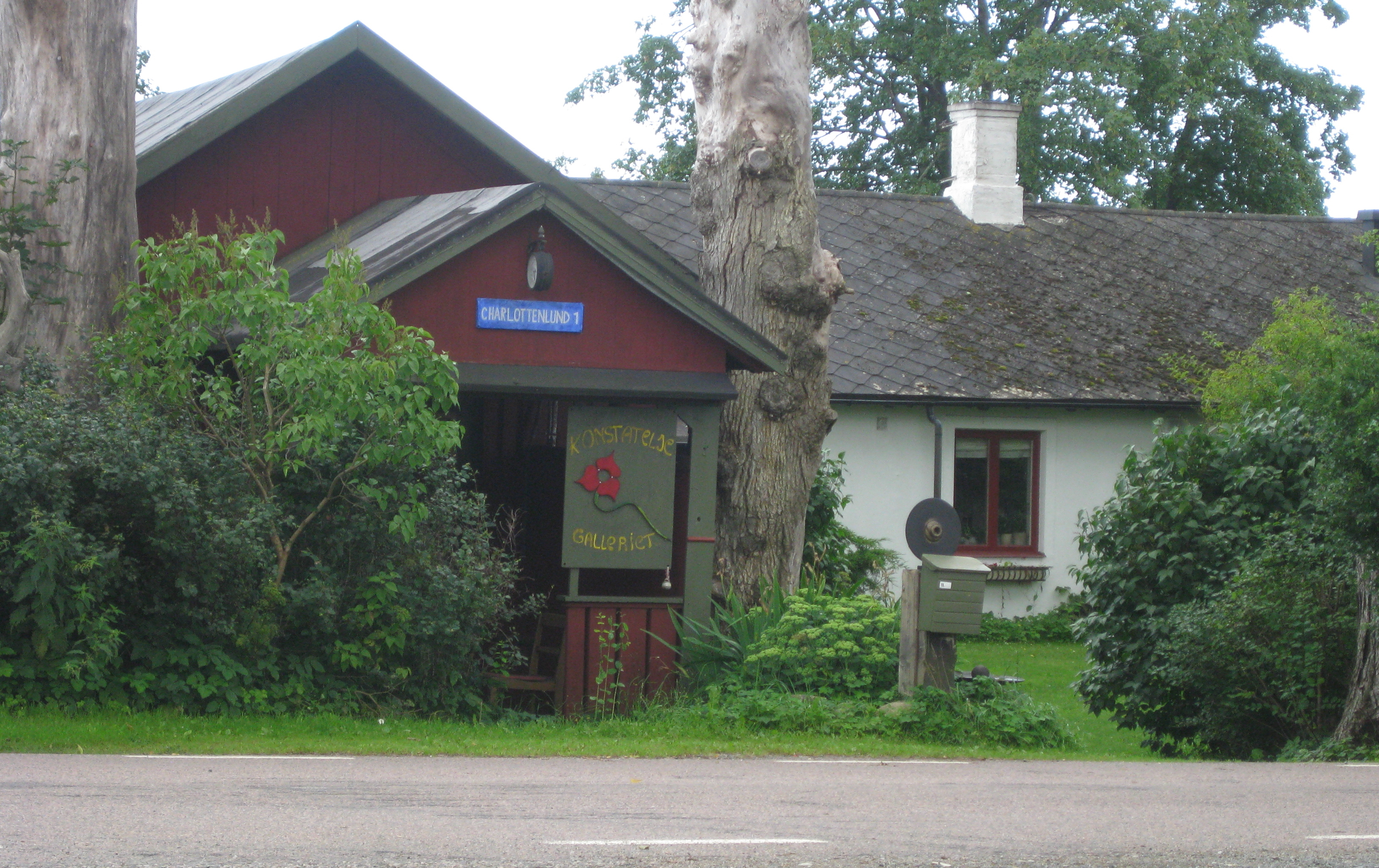 Charlottenlund in Scania, Sweden